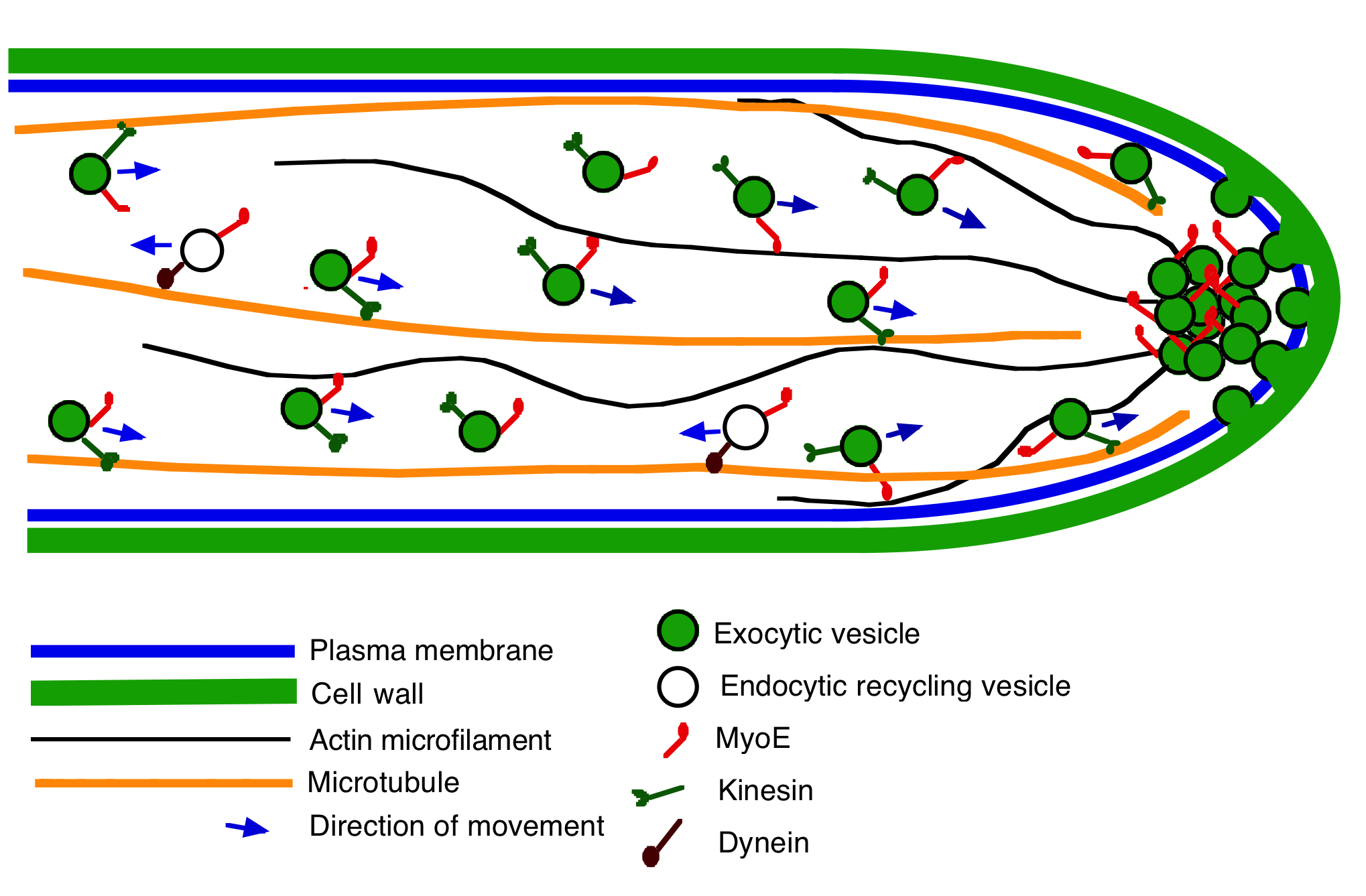 A simplified model for MyoE function at the hyphal tip. A. A myoE+ cell. Exocytic vesicles move along microtubules powered by kinesin molecules. (It is likely that several kinesins can carry out this function.) There is a large zone of overlap between microtubules and actin microfilaments. When exocytic vesicles become detached from microtubules, as will generally be the case because of the limited processivity of kinesins, MyoE, on the vesicles will move the vesicles along actin microfilaments, collecting them at the Spitzenkörper. The vesicles then fuse in a fairly small area to the plasma membrane releasing their contents and resulting in hyphal growth. MyoE, vesicle components and, probably, many more proteins are moved in retrograde direction by dynein where they will be reused. For simplicity, much of the endocytic machinery including endosomes and actin patches has been left out of this model. For a more detailed model of the endocytic machinery please see reference 10.